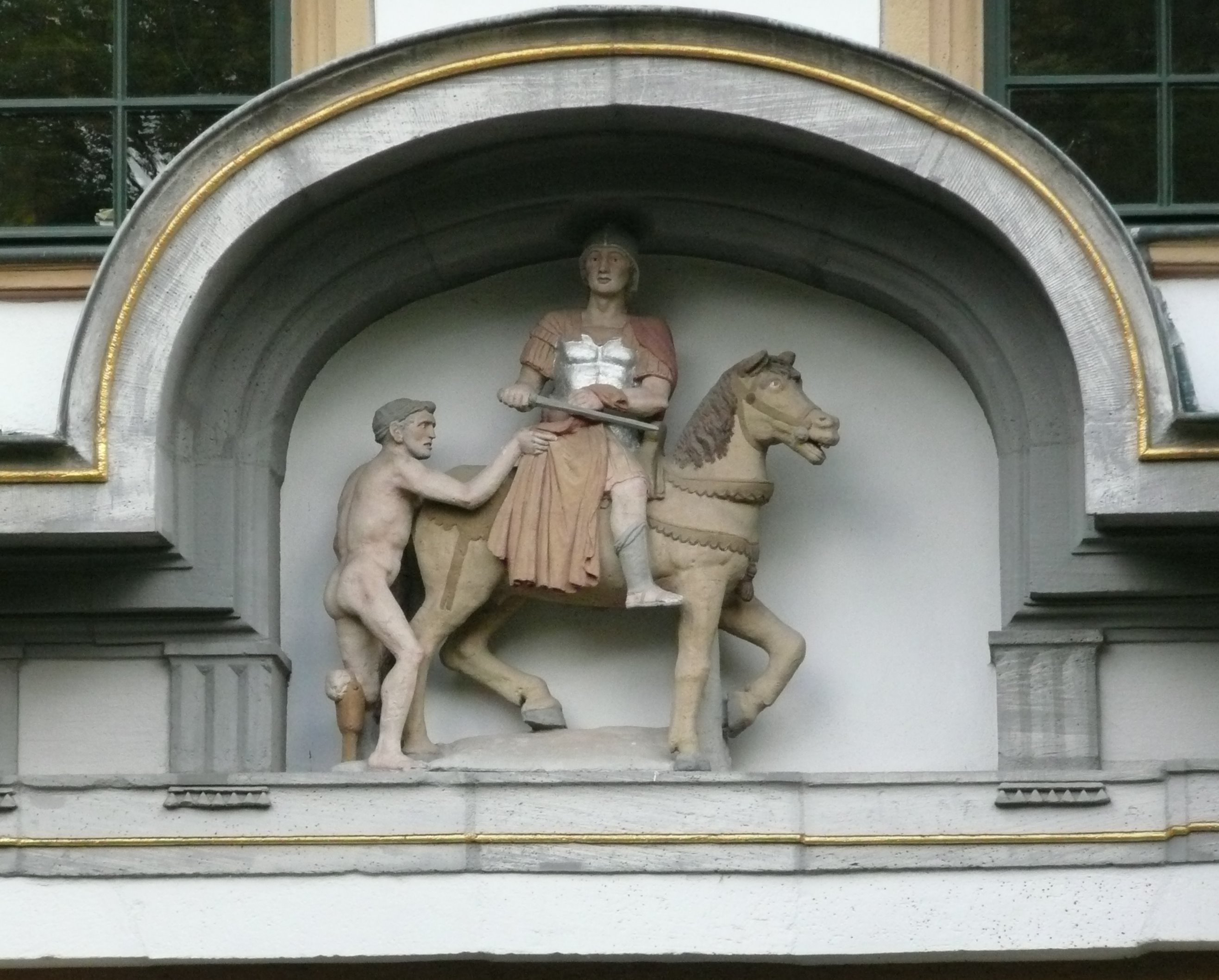 Saint Martin and the beggar, relief, Frankfurt a.M./Hoechst Castle